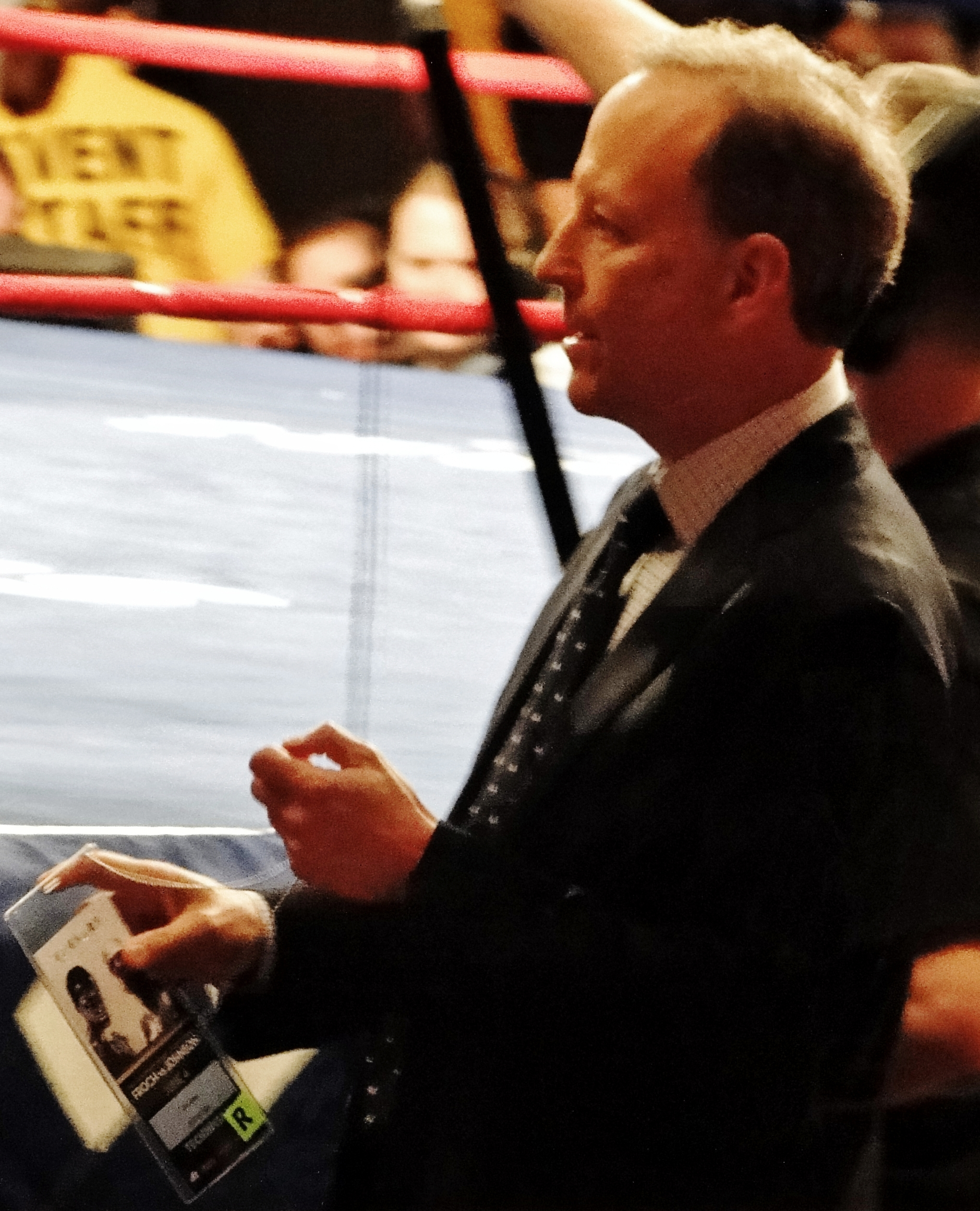 Jim Gray at the Boardwalk Hall in Atlantic City, New Jersey, United States on June 4, 2011.